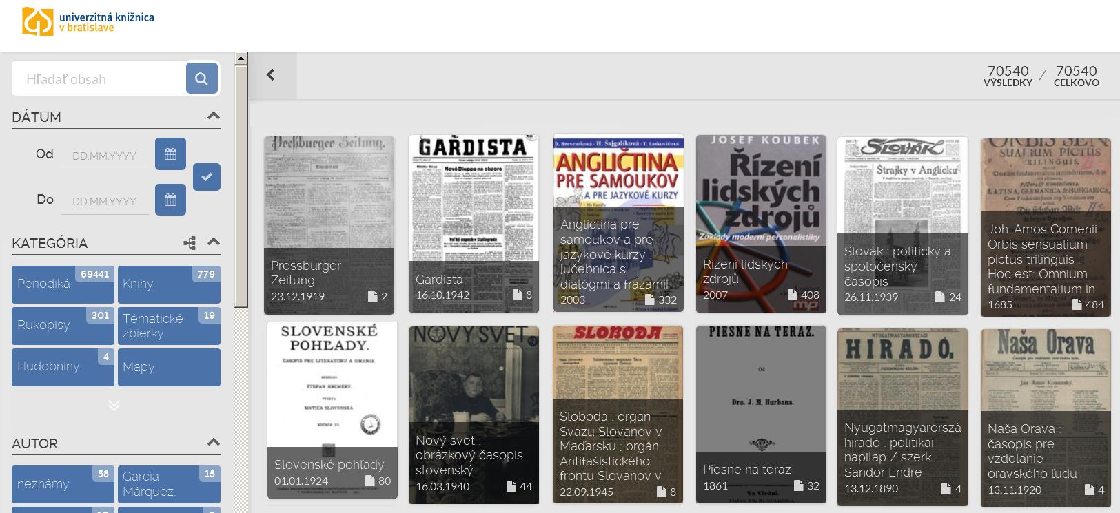 Digital library of the University Library in Bratislava